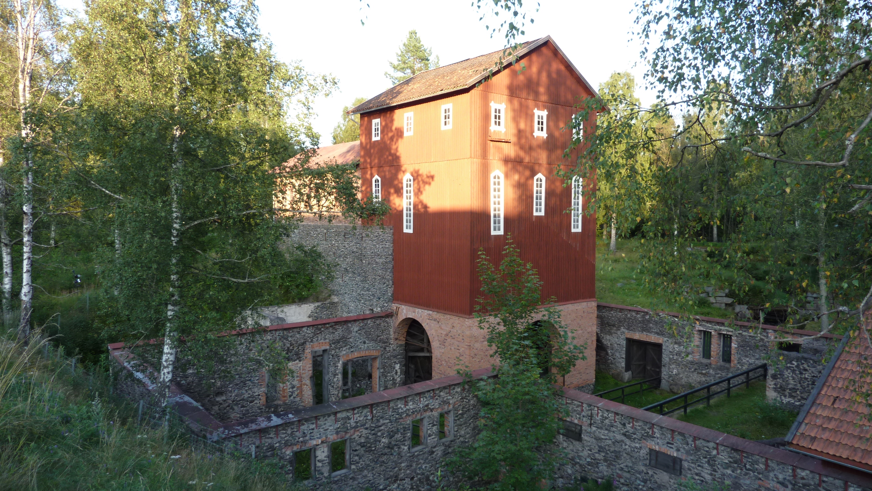 Ruin of the charcoal blast furnace in Klenshyttan, Ludvika Municipality